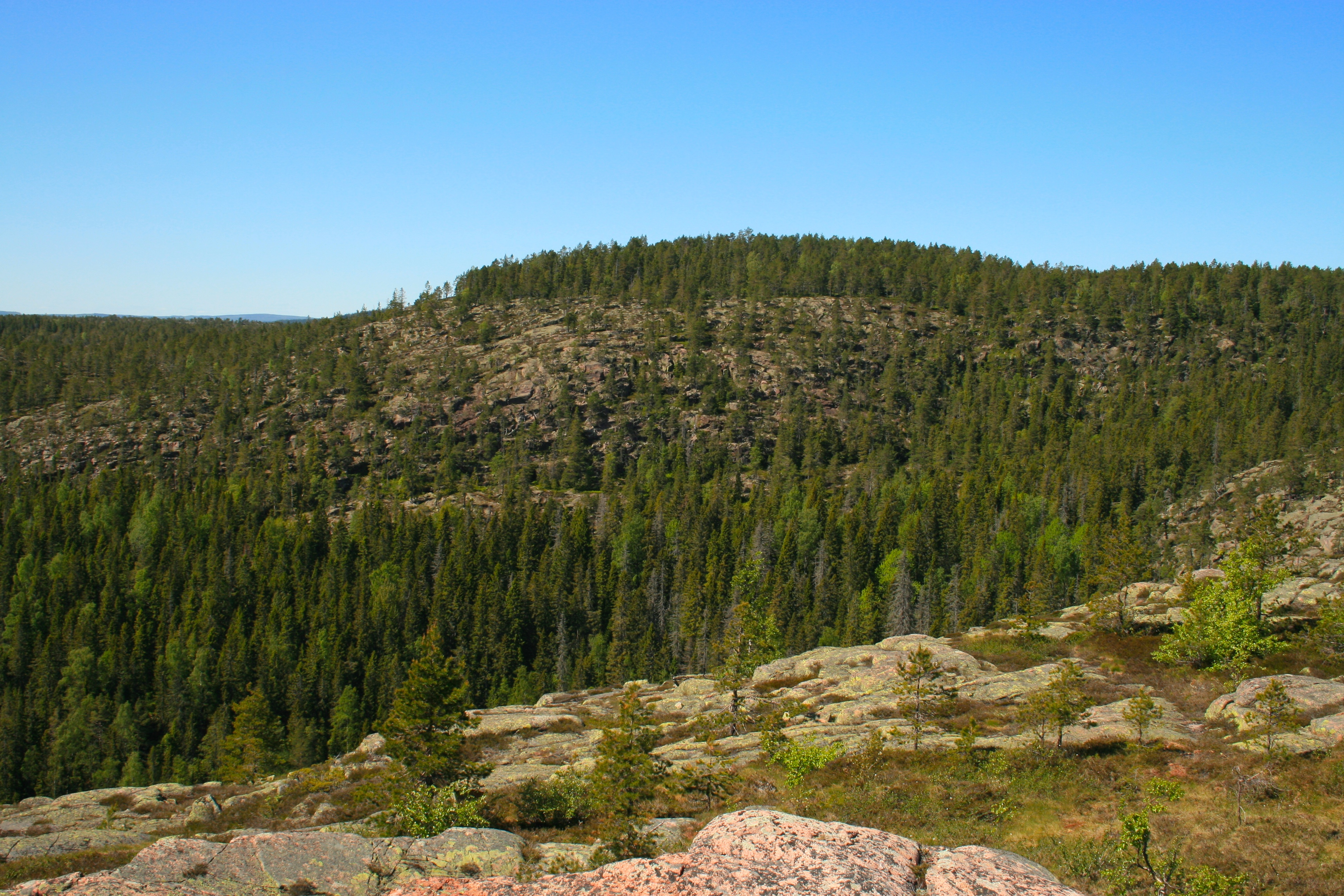 A "Kalottberg" or till-capped hill seen from Slåttdalsberget in Skuleskogen national park.